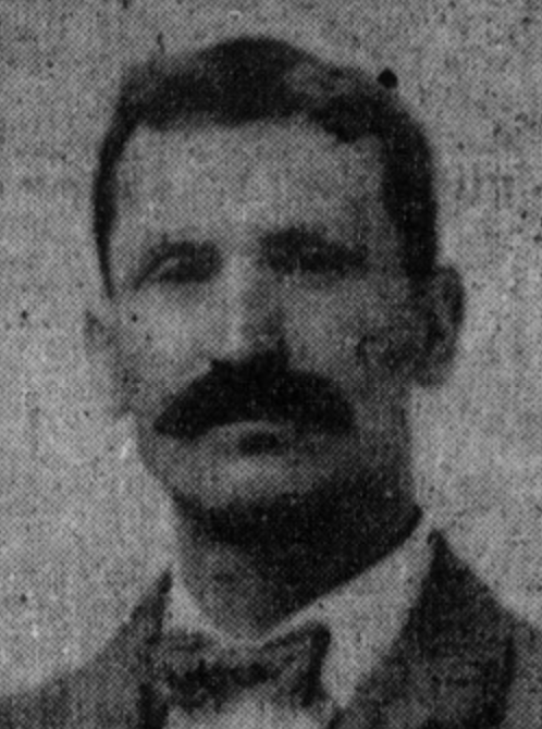 Head shot of Edward A. Clampitt, 19th-century oilman from Los Angeles, California